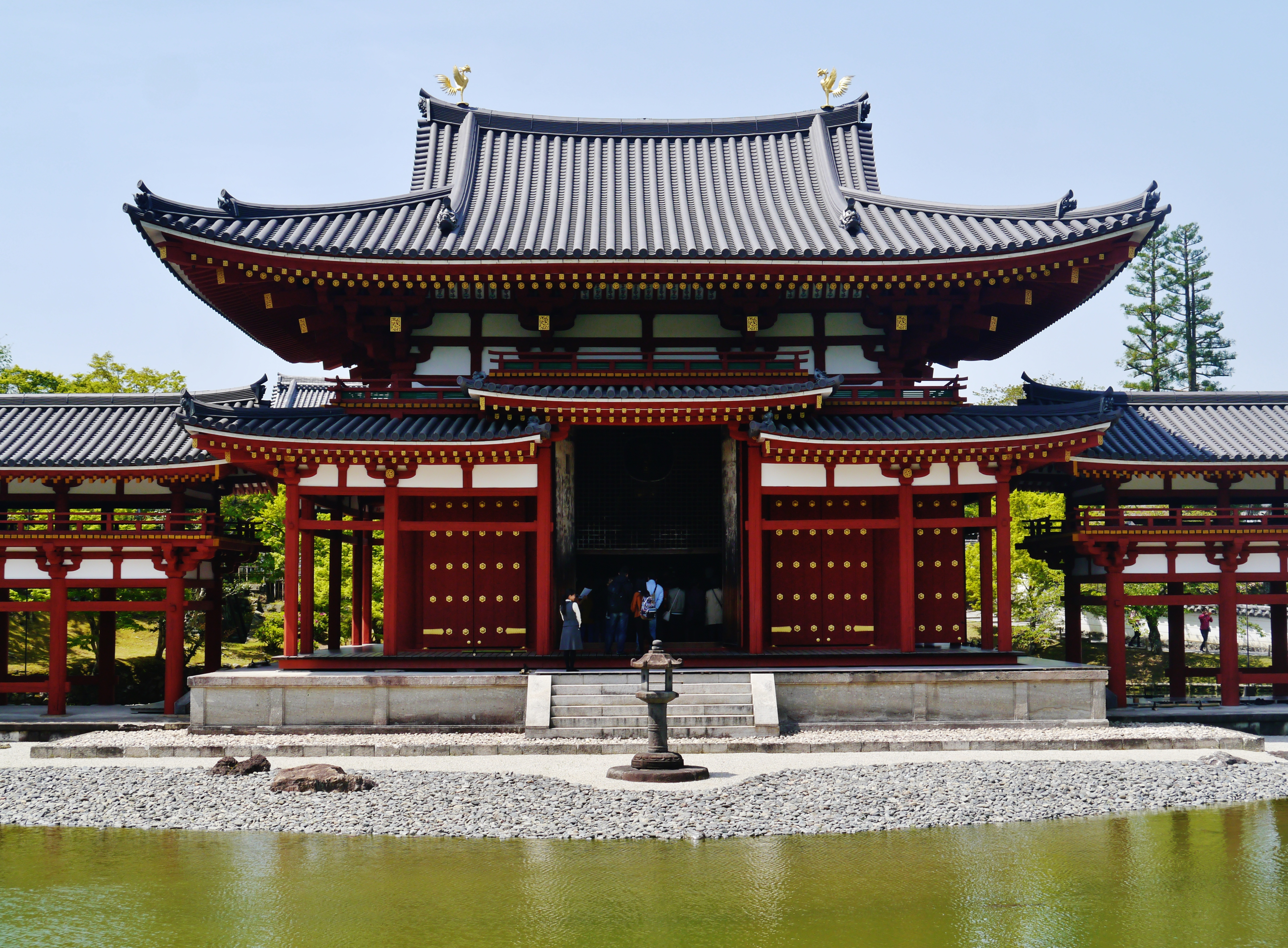 Phoenix Hall of the Byodo Temple, Uji, Kyoto Prefecture, Kinki Region, Japan